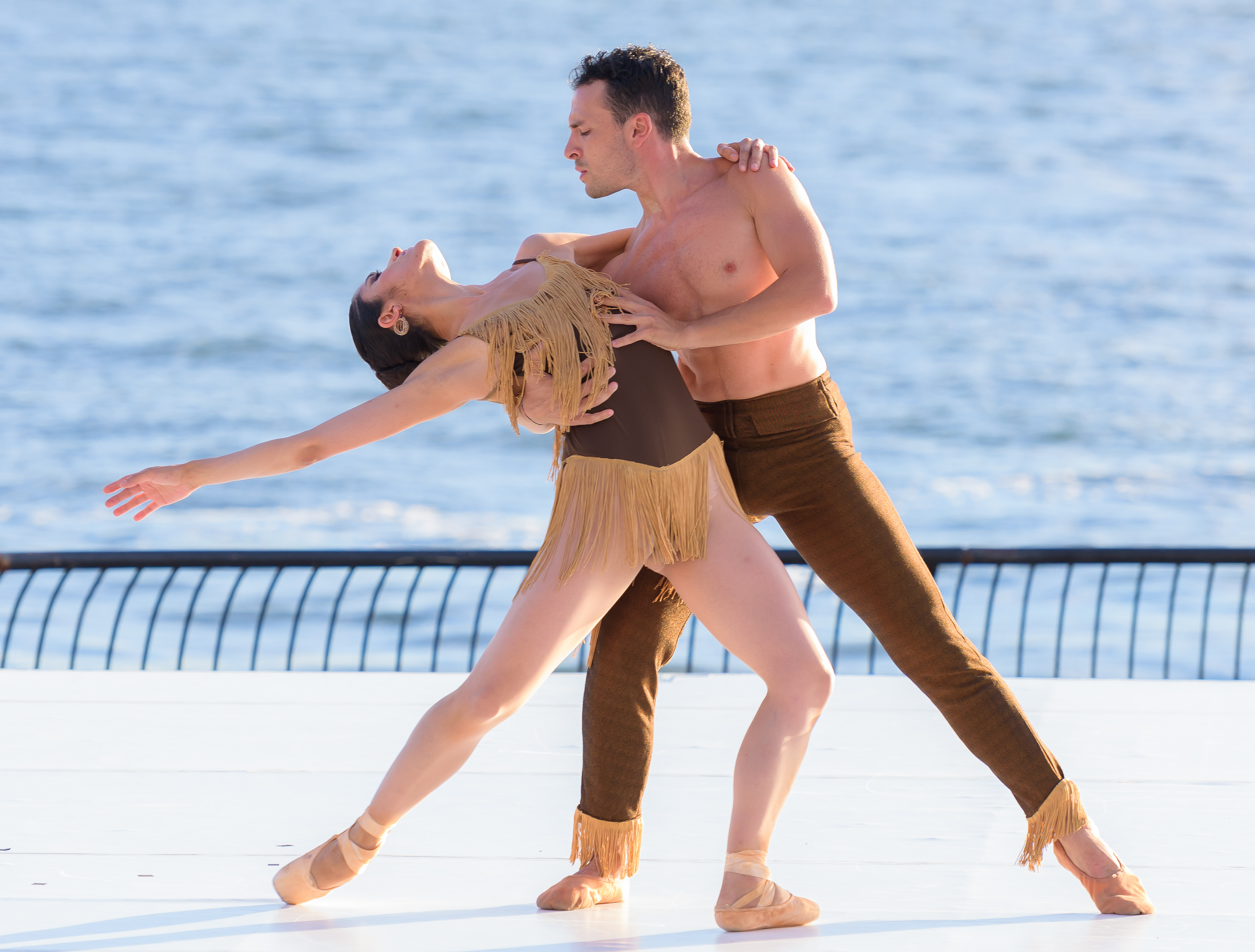 August 17, 2016 Robert Wagner Jr. Park New York, NY